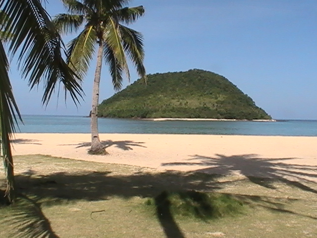 A view of Tamaguin Island from the white sand beach of Sicogon Island. 2009.